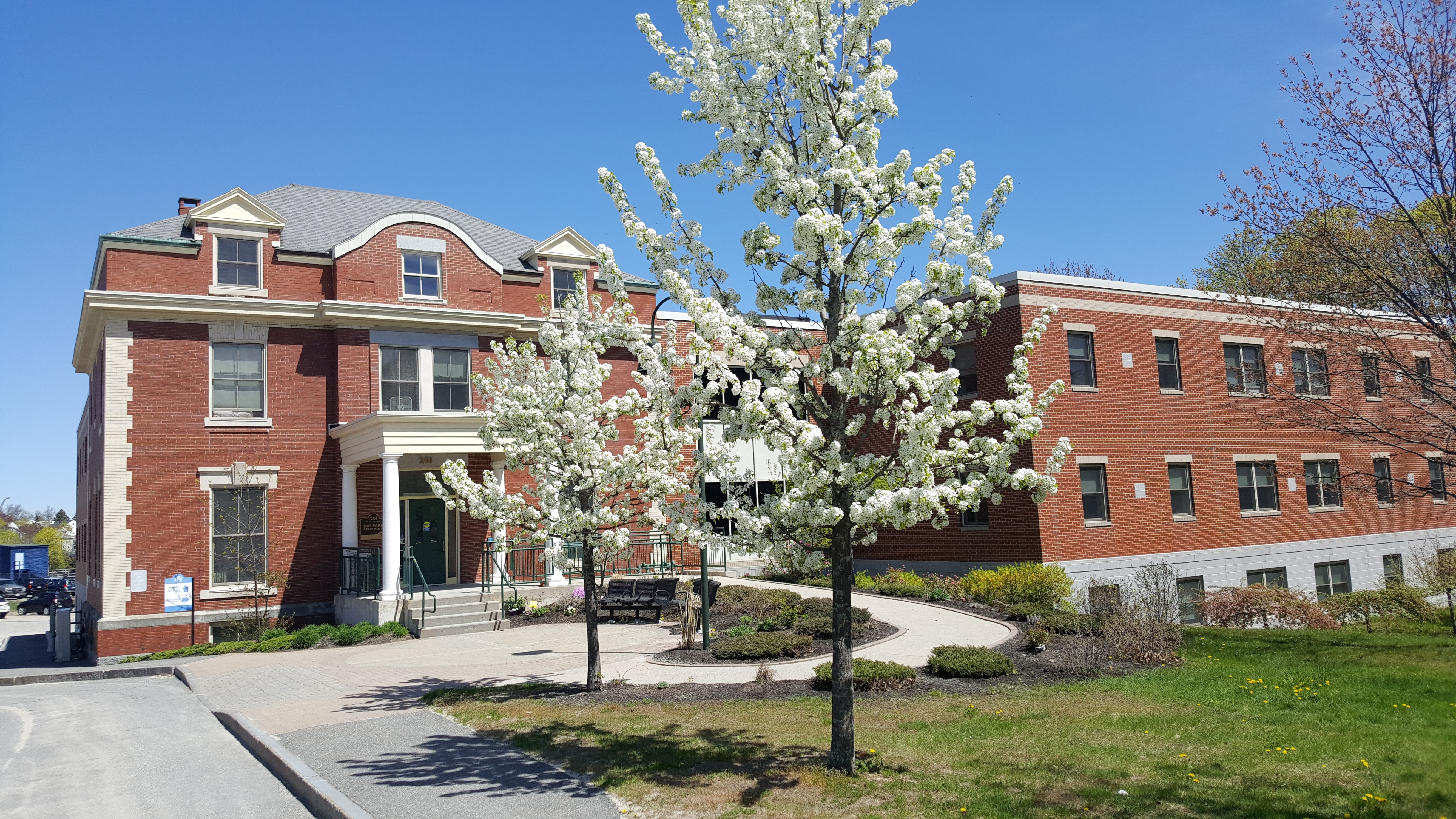 The Iris Park Apartments